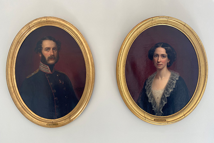 King of Denmark Christian IX with his wife Louise Hesse-Kassel